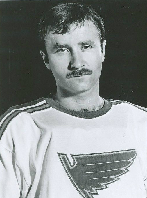 Photo of ice hockey player Mike Jakubo as a member of the St. Louis Blues. The item has no copyright markings on it as can be seen in the links above.